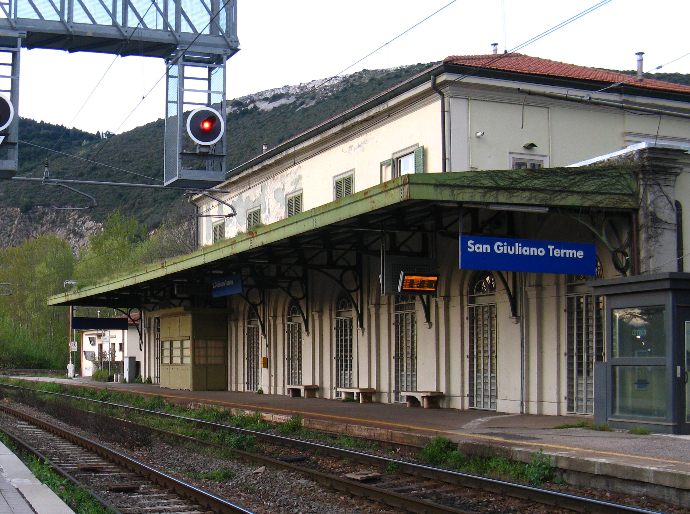 Railway station of San Giuliano Terme (Pisa)